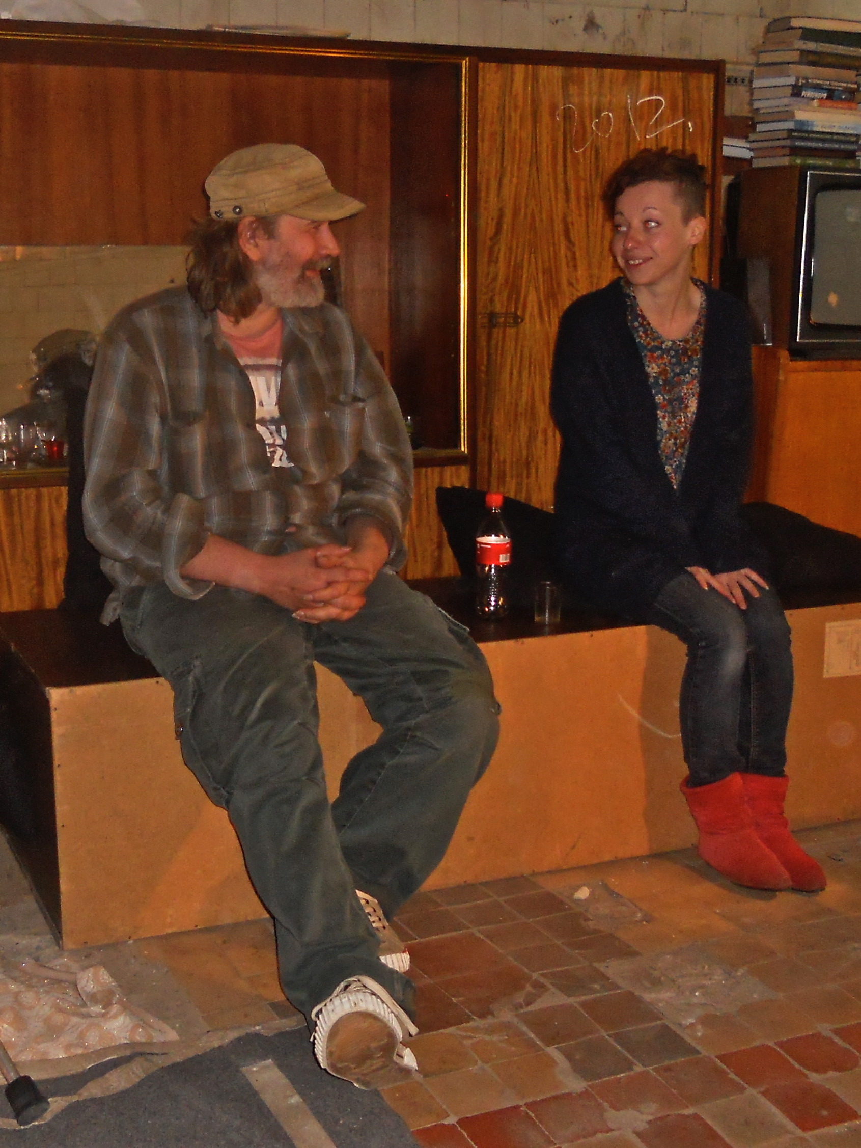 Dramatist Vadim Levanov and directed by Eugene Berkowitz after a screening of the play "Gerontophobia". Project "Platform". Large wine storage, center for contemporary art "Vinzavod", Moscow, Russia. May 18, 2011.